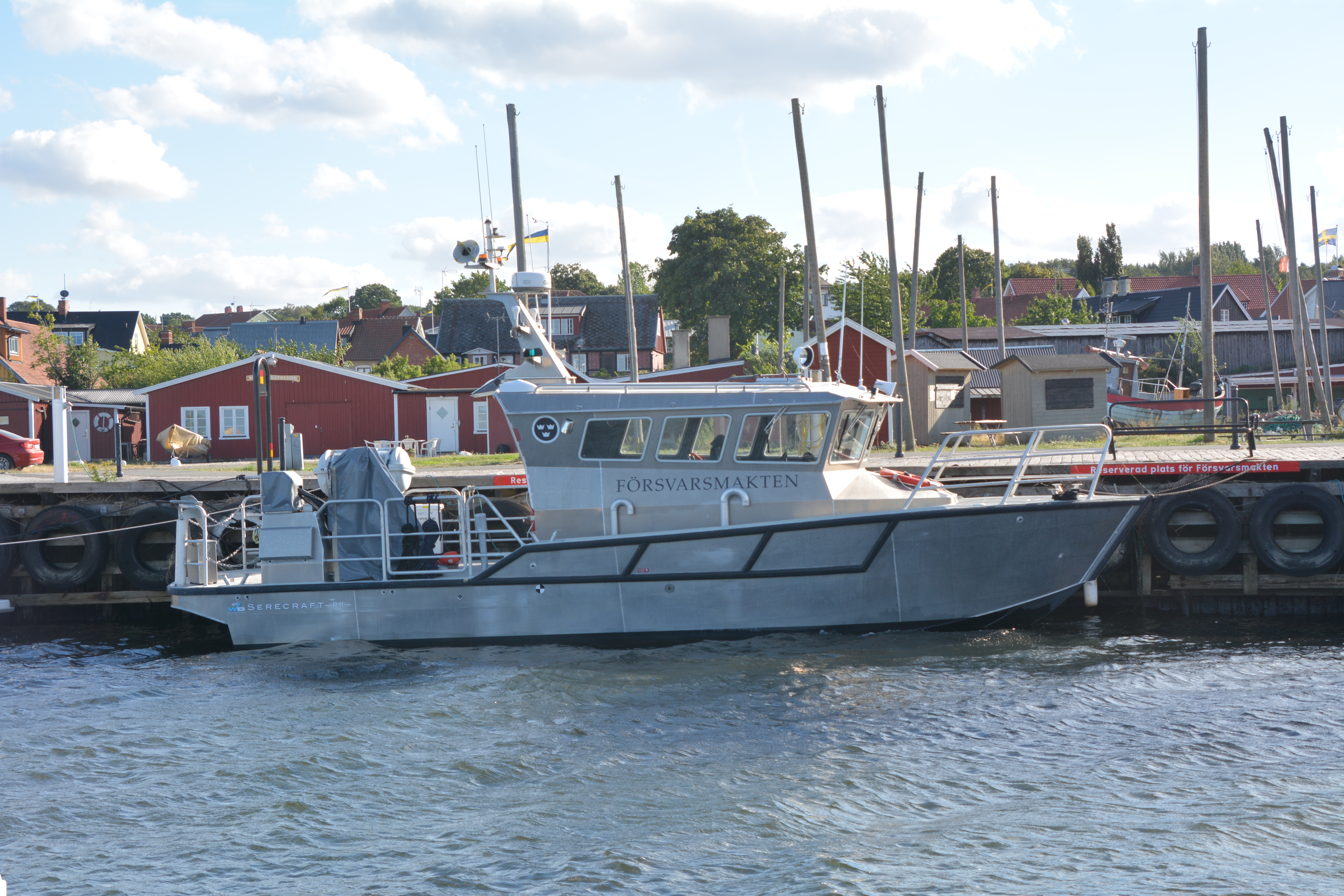 Missilen, Swedish Defence Forces boat